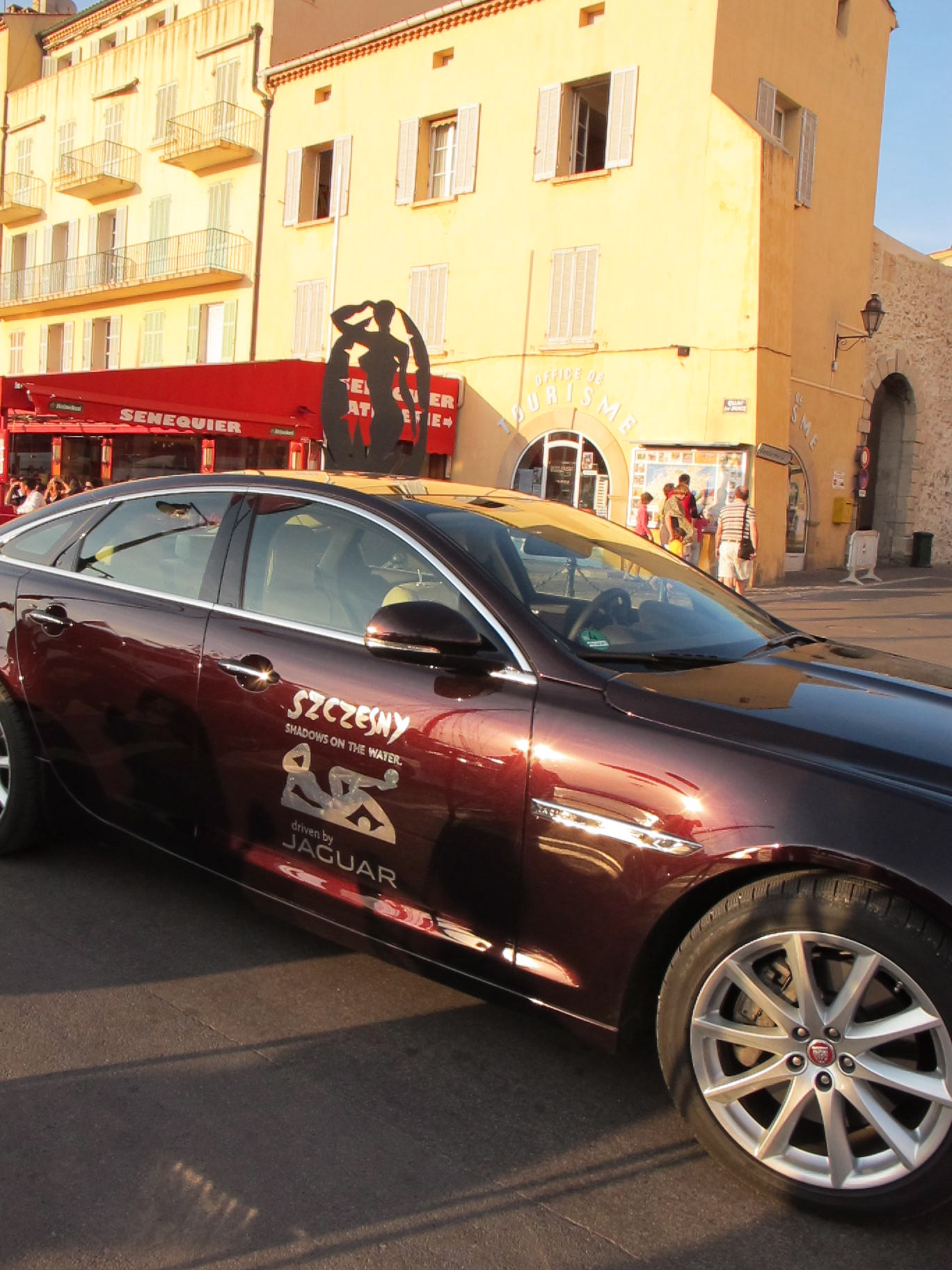 A Jaguar in front of a Szczesny shadow sculpture, Jaguar Art Project "Shadows", Saint-Tropez 2011.